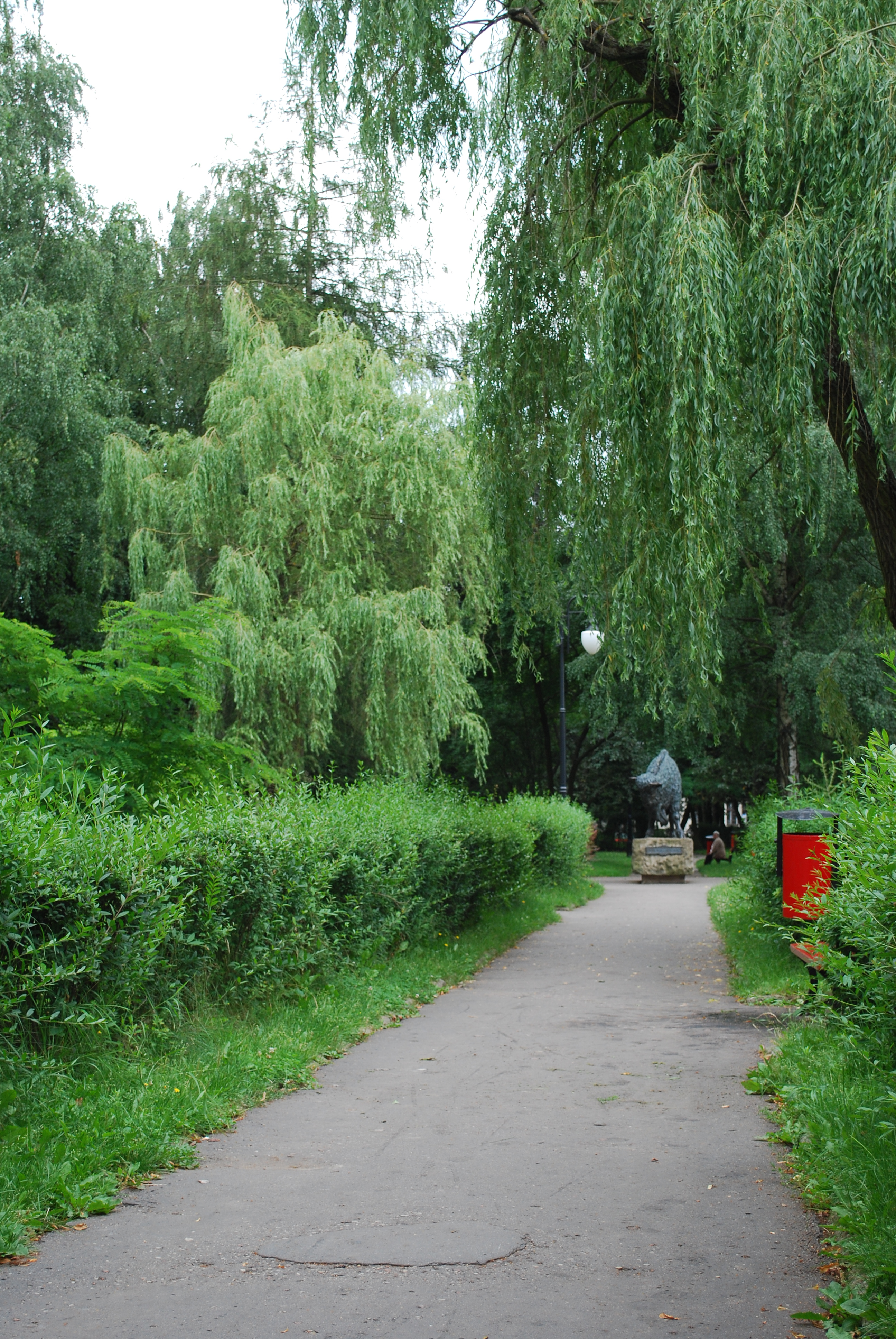 This photo from Podlaskie Voievodeship was taken during Polish Wikiexpedition 2009 set up by Wikimedia Polska Association. The making of this document was supported by Wikimedia Polska. Skwer Wasilewskiego w Hajnówce.